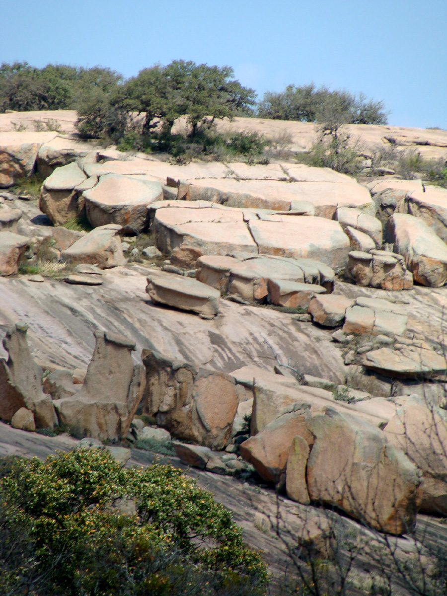 Enchanted Rock State Natural Area, Texas